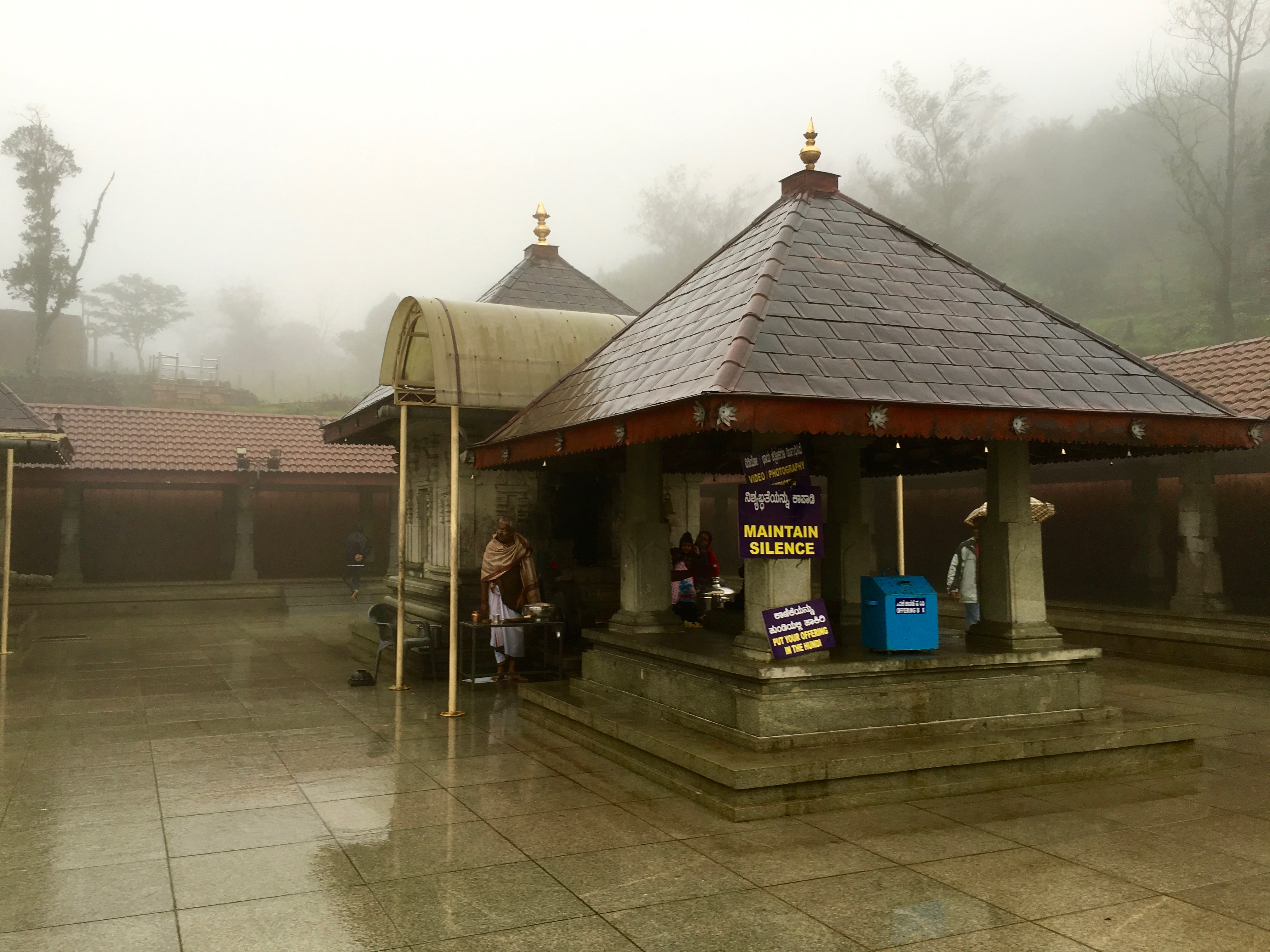 Talakaveri Temple during Mansoon